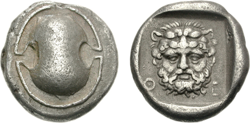 Boiotia, Thebes. Circa 440-425 BC. AR Stater (11.89 g). Boiotian shield Facing bearded head of Herakles, wearing lion's skin headdress; Θ-Ε across lower field; all within square incuse.